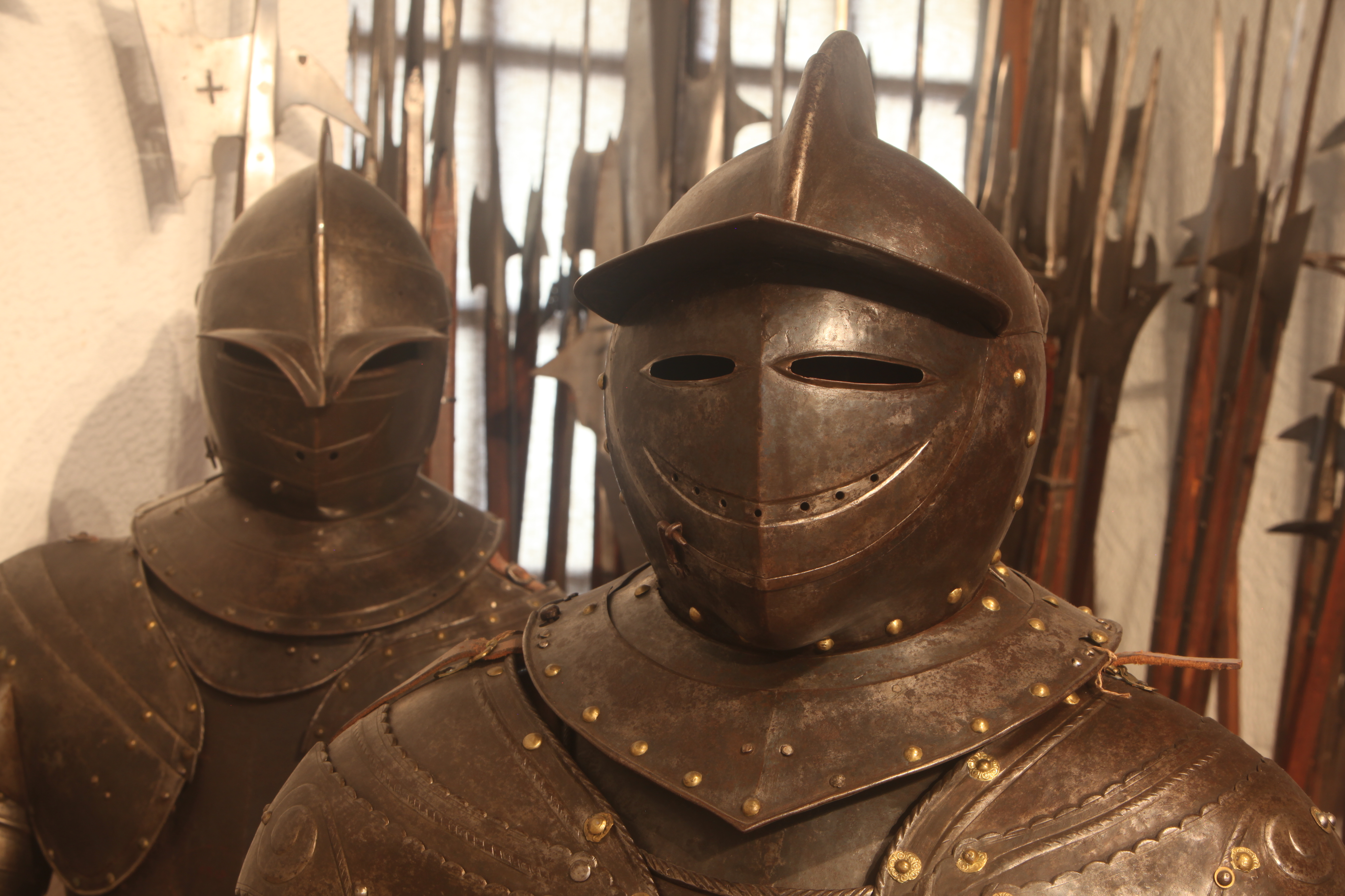 Cuirassier's armours. On display at Morges military museum.